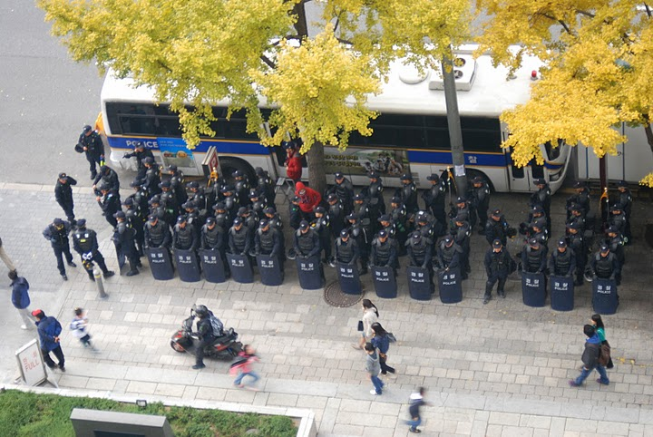 Demonstrators converged on downtown Seoul, South Korea Sunday for the first of a promised series of protests against the G20 leaders' summit. A squad of riot police in front of the Korea Press Center in downtown Seoul.